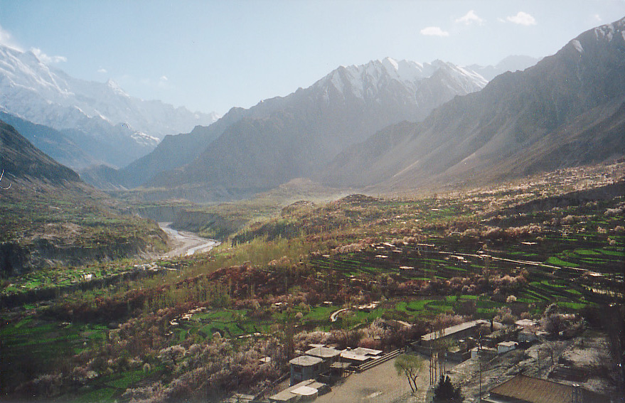 Glacial waters give rise to the river which eventually flows into the Indus and thence to the Indian Ocean.